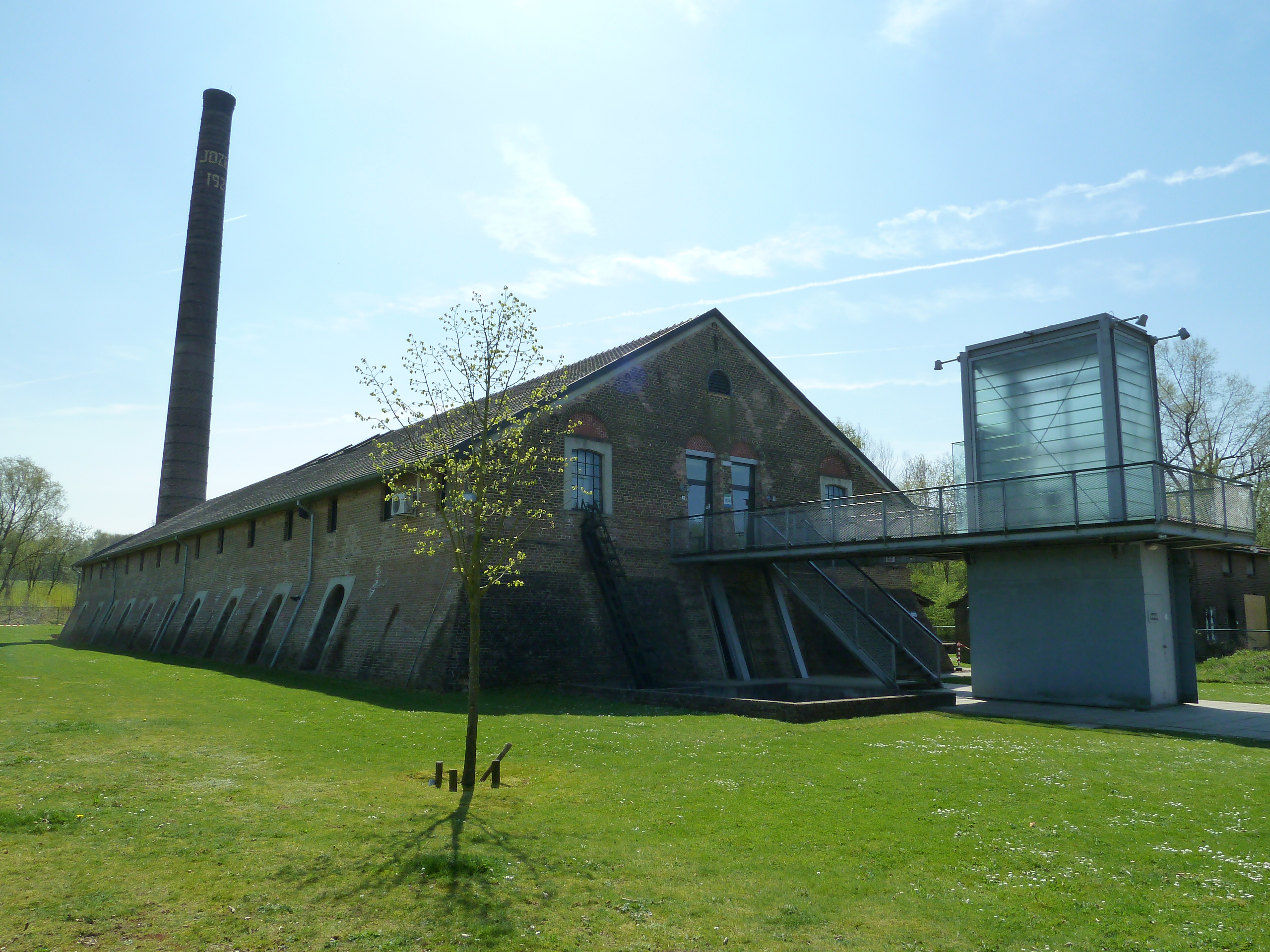 Stone factory St. Jozef, Sweikhuizen, Limburg, the Netherlands